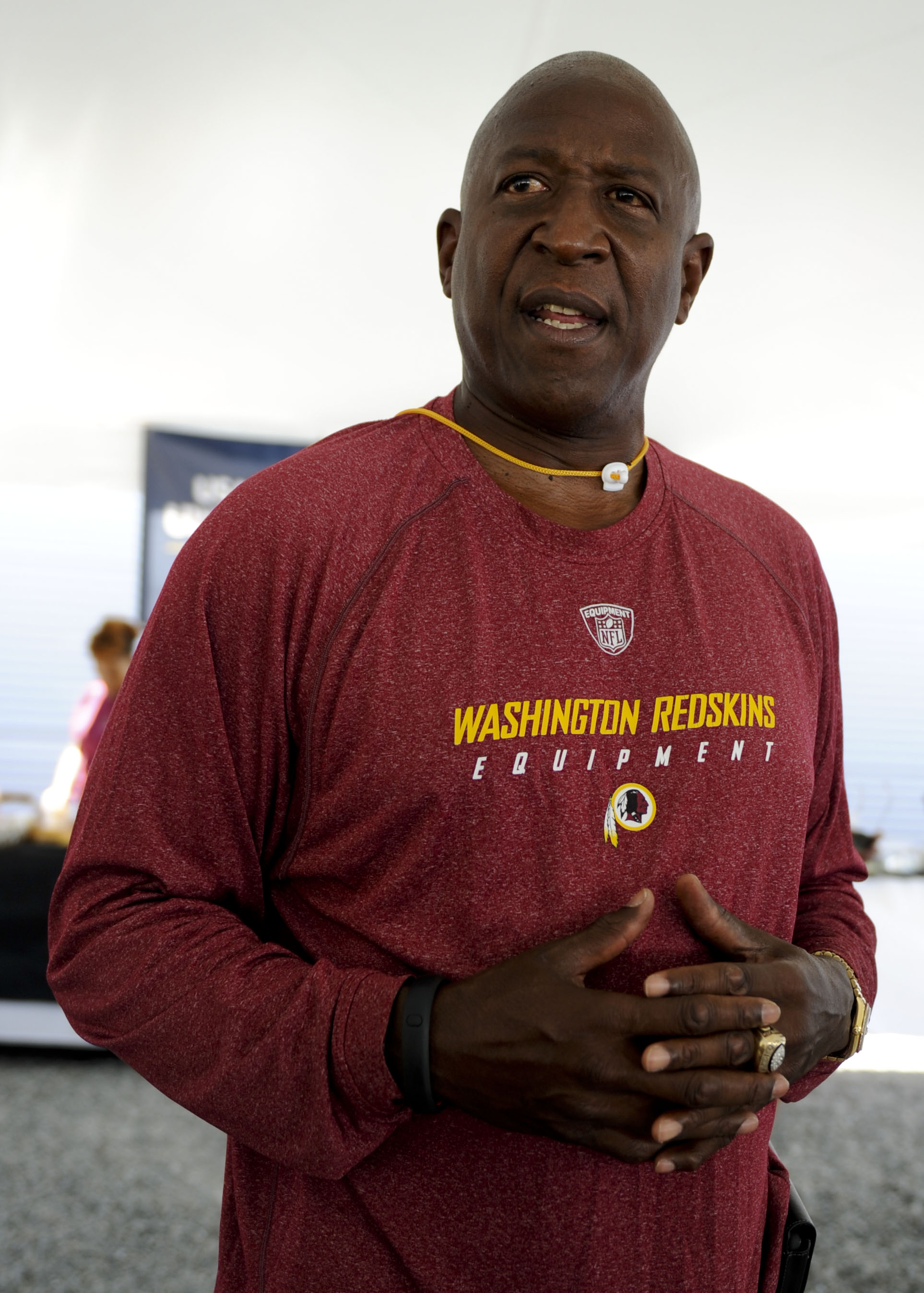 Richard “Doc” Walker, former Washington Redskins player and current sports announcer, thanks military members for their service during the Washington Redskins training camp at the Bon Secours Training Center in Richmond, Va., July 31, 2015. The event was part of a National Football League program at creating and fostering understanding and appreciation for the military community.